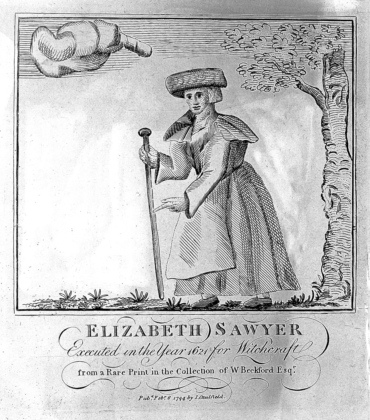 Sawyer Elizabeth: witch General Collections Keywords: witches